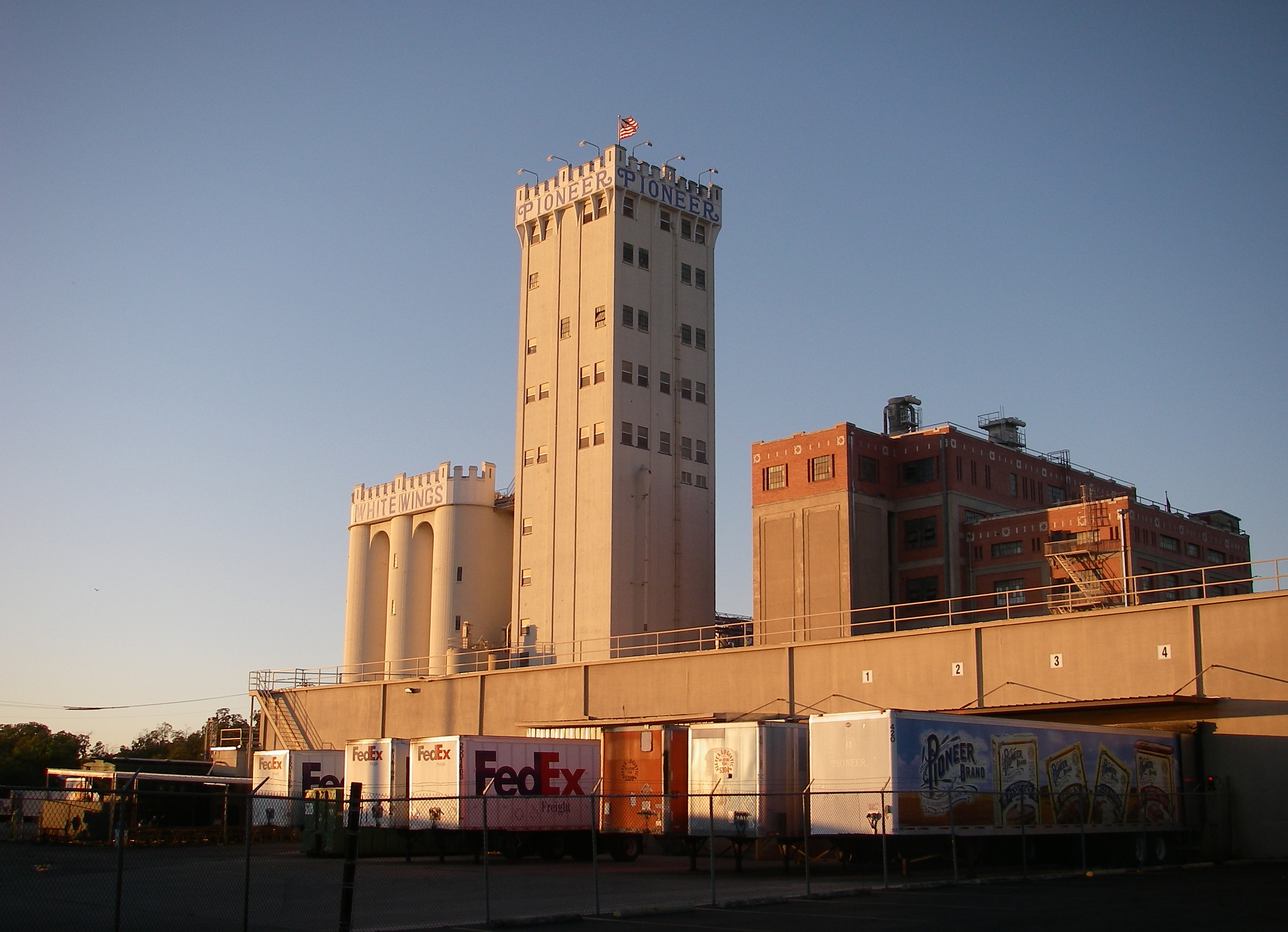 Carl Hilmar Guenther (Günther), a German immigrant to Texas, constructed his first flour mill near Fredericksburg in 1851. He moved his business to San Antonio in 1859 where he built mills along the San Antonio River. In 1922, this towering grain elevator was constructed and it has become a well-recognized landmark in San Antonio.